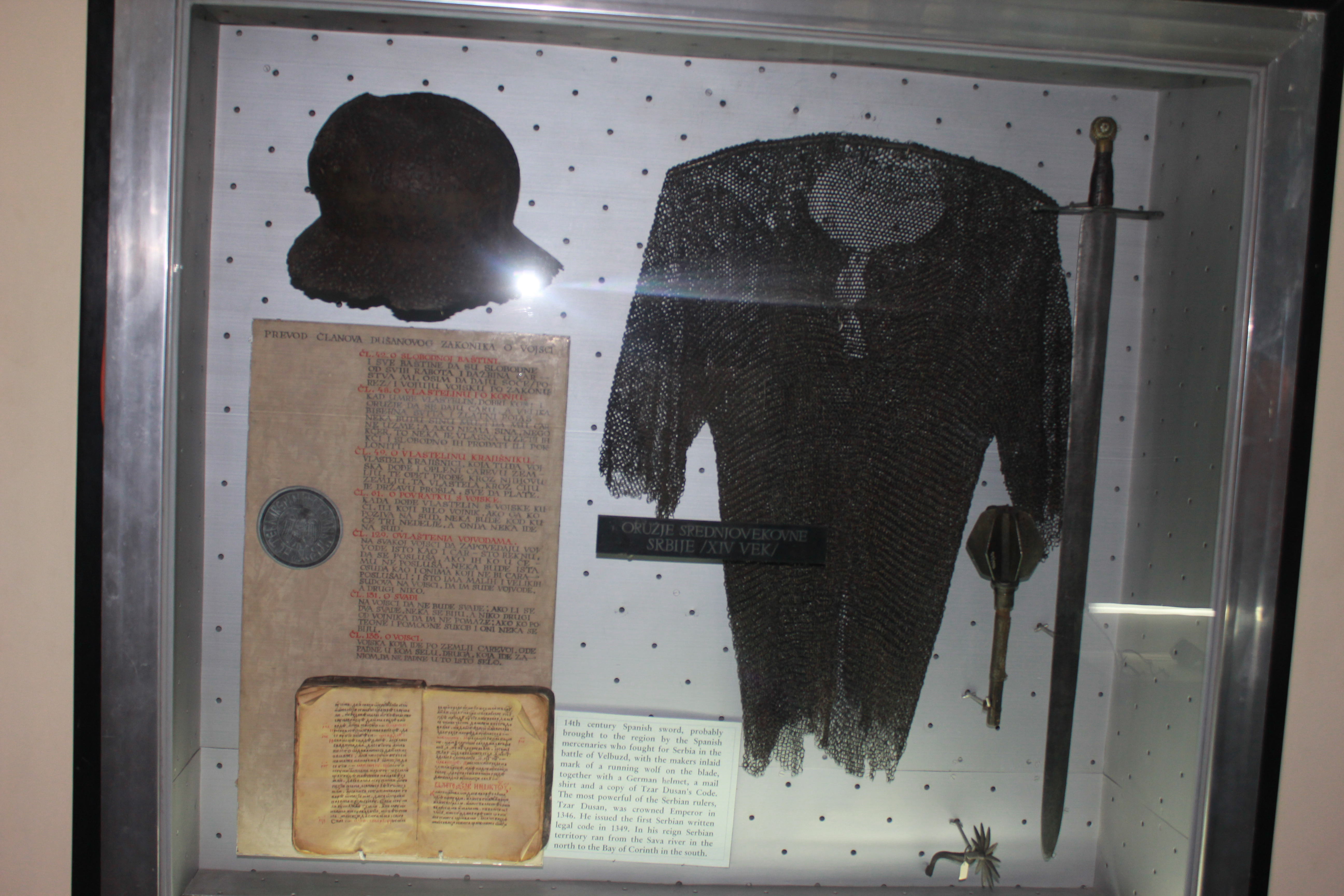 A Spanish sword brought in Serbia in XIV century by Spanish mercenaries who fought in battle of Valbazdh with German helmet that belonged to German mercenaries who also fought at battle of Velbazdh and chainamail.